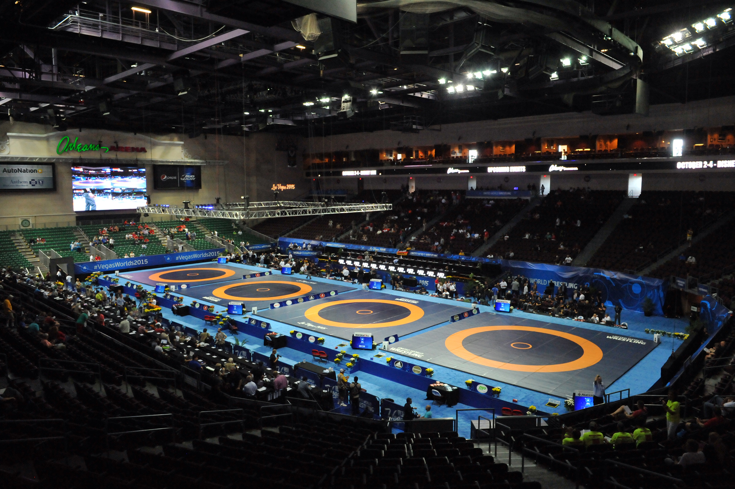 The stage is set for opening day of the 2015 World Wrestling Championships at the Orlenas Arena in Las Vegas. Sgt. Caylor Williams of the U.S. Army World Class Athlete Program is scheduled to face Davi Albino of Brazil in their first match in the men's 98-kilogram Greco-Roman division around 12:12 p.m. PT. U.S. Army photo by Tim Hipps, IMCOM Public Affairs